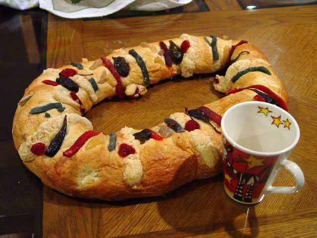 Mexican king cake